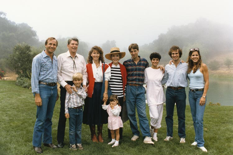 The Reagan Family at Rancho Del Cielo: (left to right) Michael Reagan, President Reagan, Cameron Reagan, Colleen Reagan, Nancy Reagan, Ashley Marie Reagan, Ron Reagan, Doria Reagan, Paul Grilley, Patti Davis.